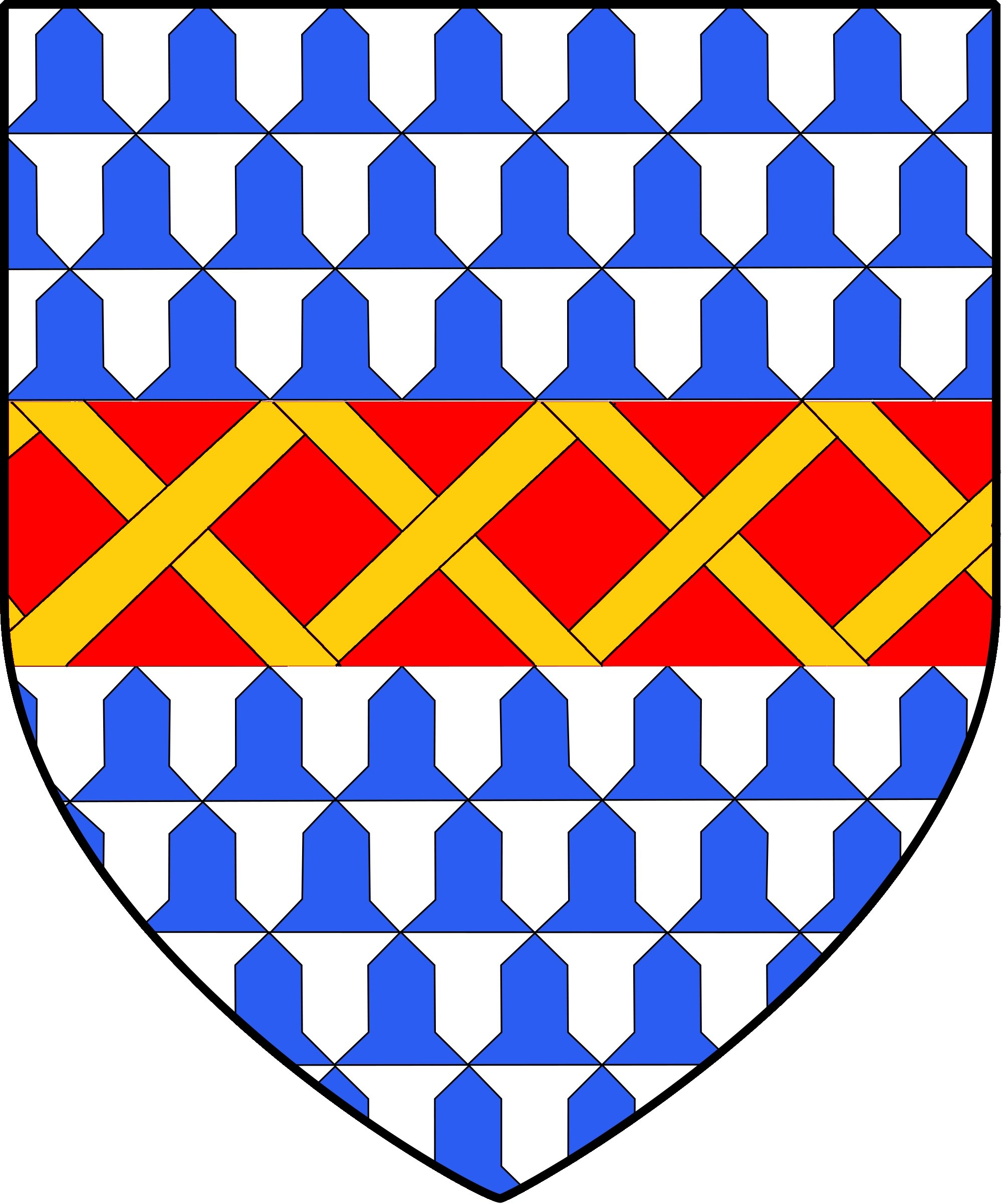 Coat of Arms of Marmion of Tamworth modified with the Addition of Fretty Or